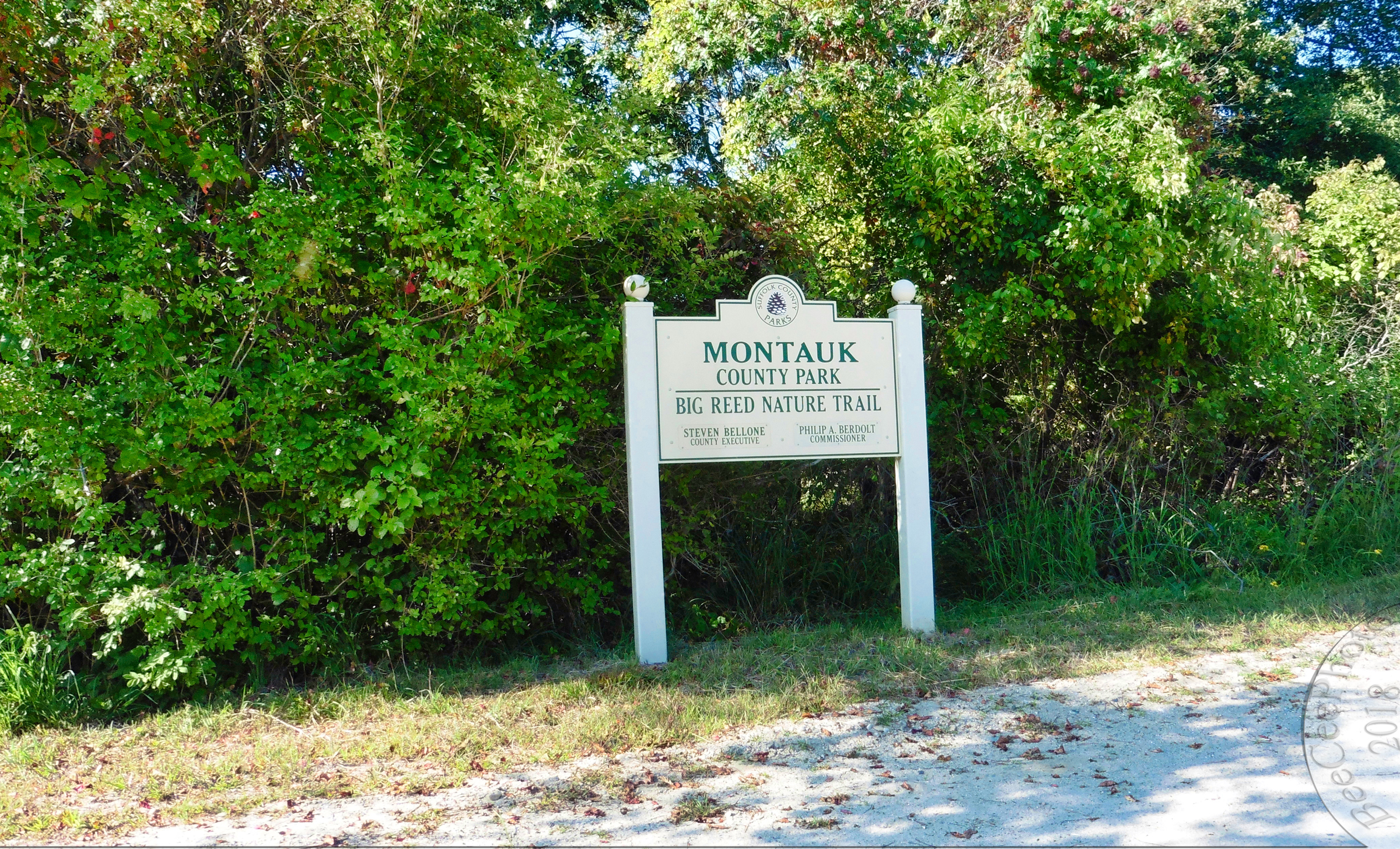 Eastern end of the Paumonok Trail, Big Reed Nature Trail by Little Reed pond in Indian Fields, Montauk County pk aka Theodore Roosevelt state park